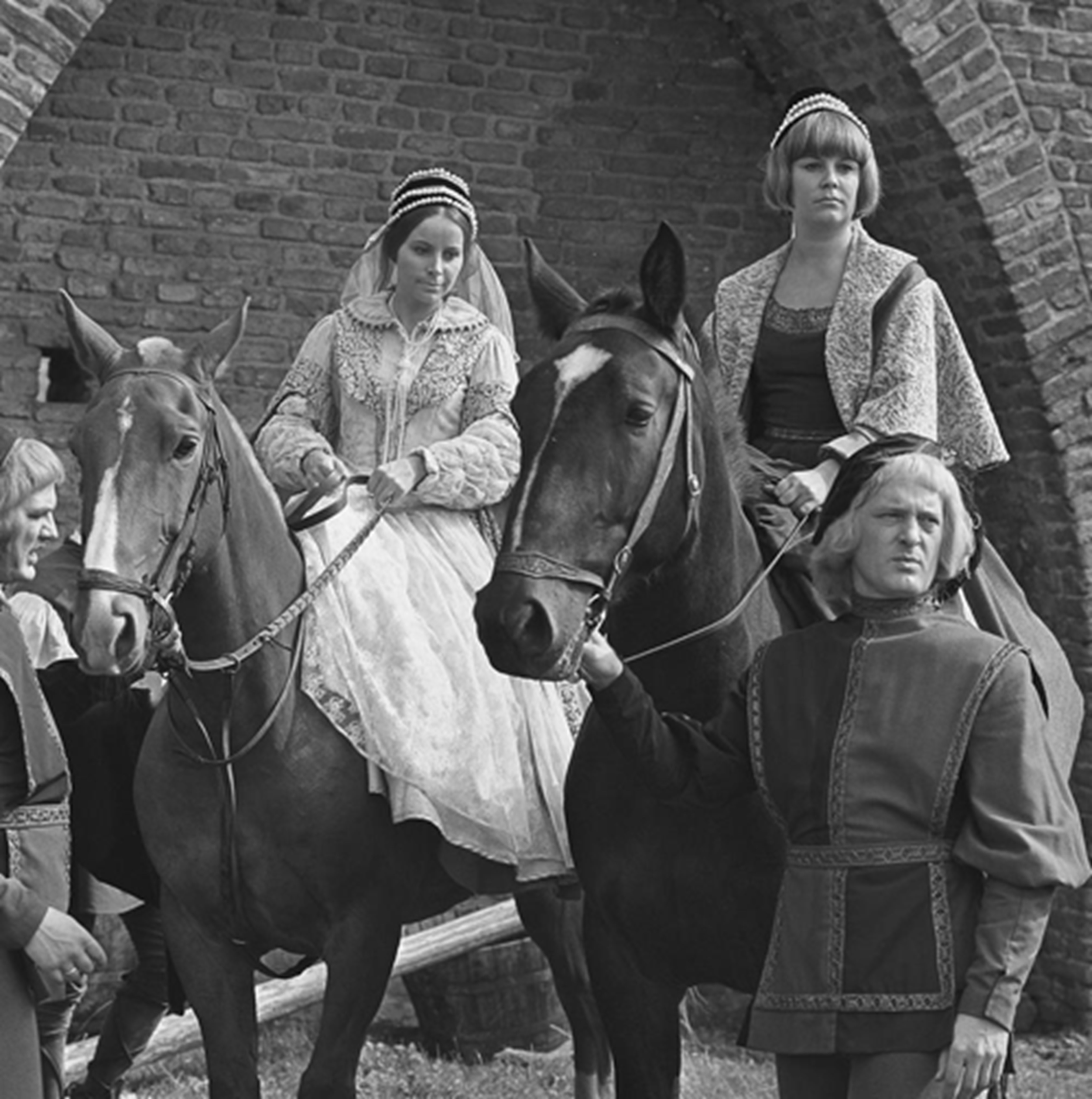 Dutch 1969 TV series Floris